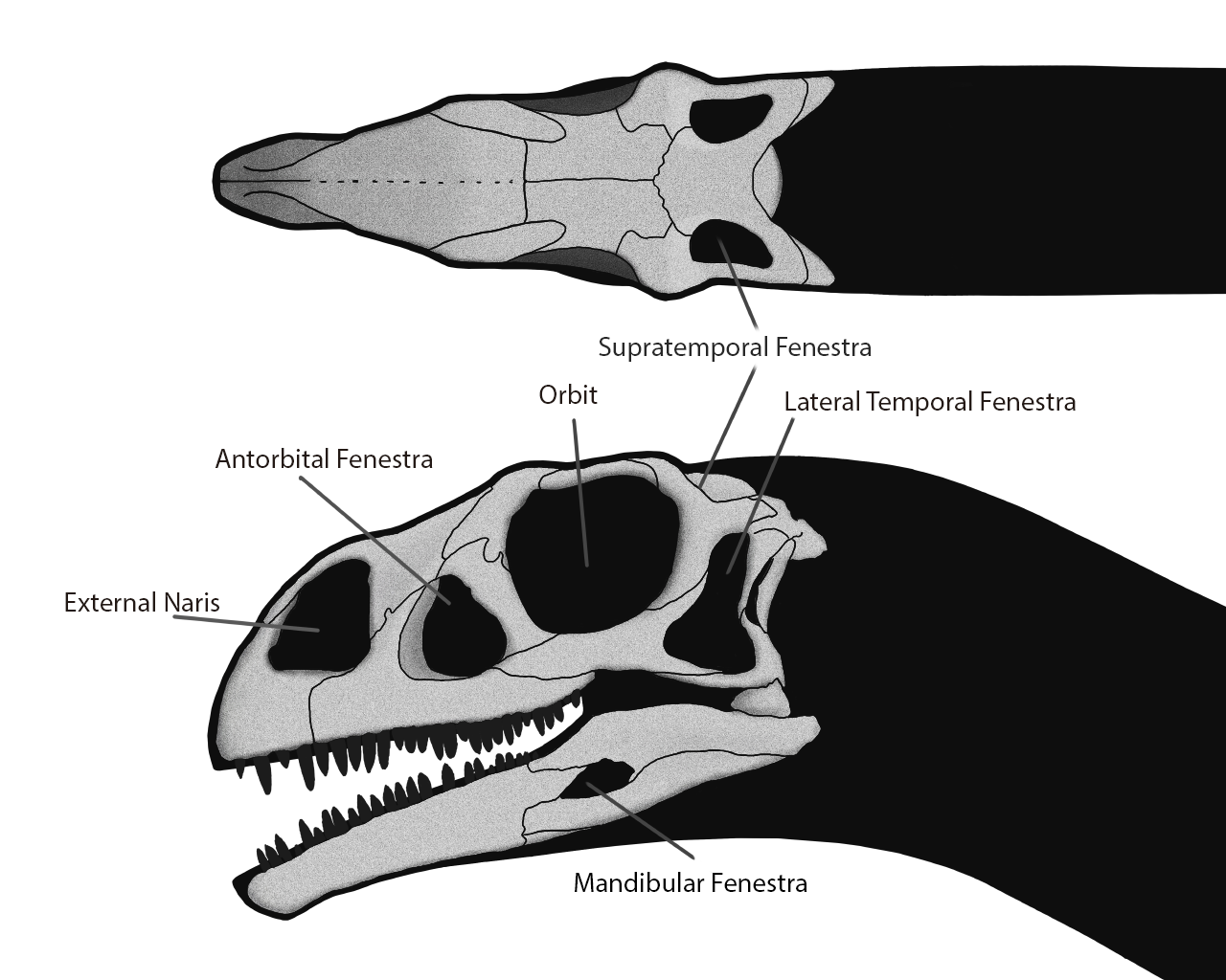 A skull diagram of the prosauropod dinosaur Massospondylus; showing the various holes in the skull (fenestra). • Based on [1] and images in 'The Dinosauria Second Edition' 2004. NOTE: I often update my images. If you want to have any of my images on a website, please (if possible) don’t host/save it to the website server. I’d prefer it if the image's Wikimedia URL is used. This means that if I update an image, it will be updated on the site as well. Thanks.